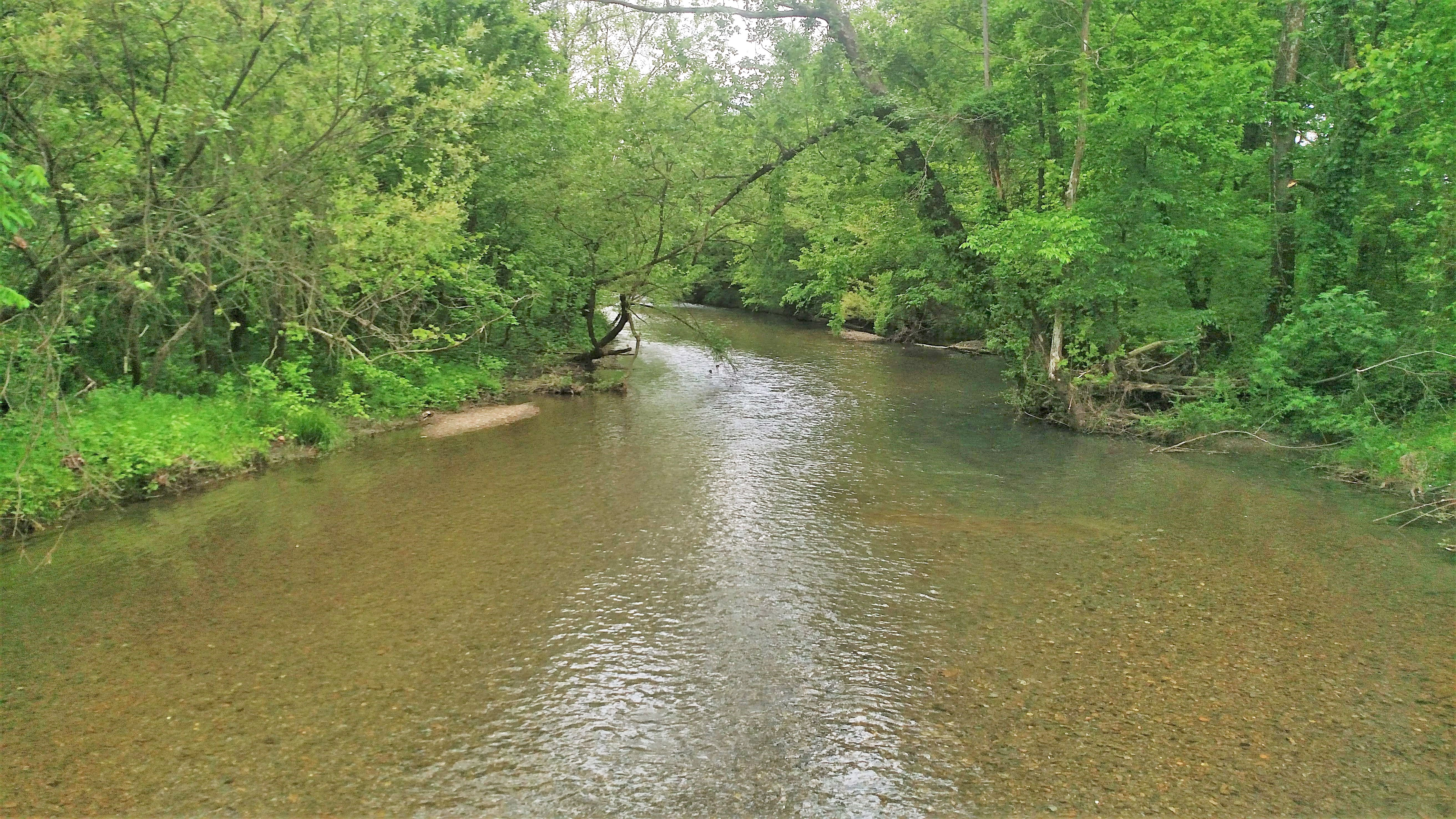 The Caddo River forms the southern town limits of Black Springs in Montgomery County, Arkansas